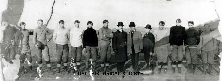 A Columbus Panhandles earlier team.